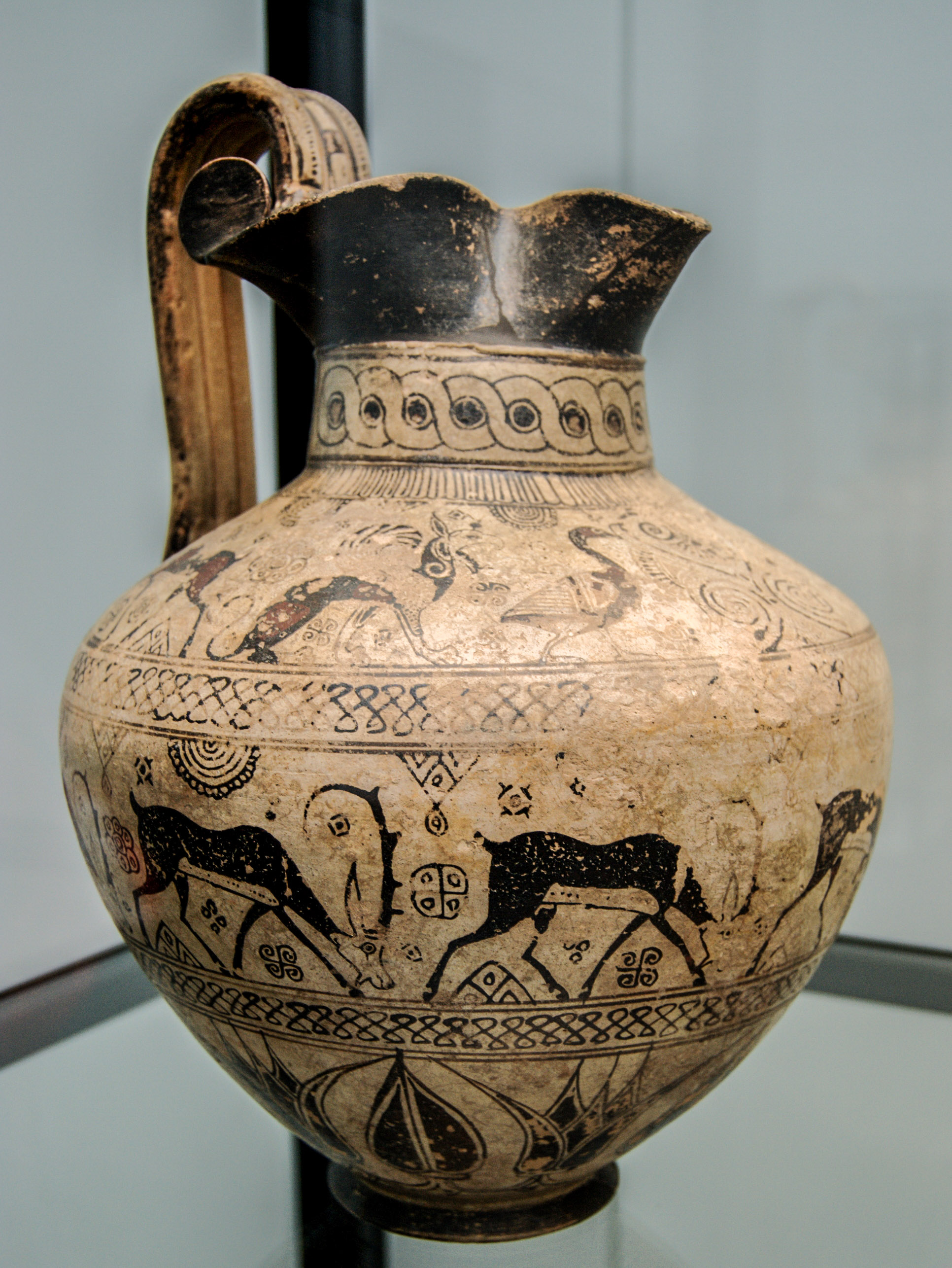 Eastern Greece jug, ca. 630 BC. Top: Griffins. Center: grazing ibexes. Bottom: bloom buds.